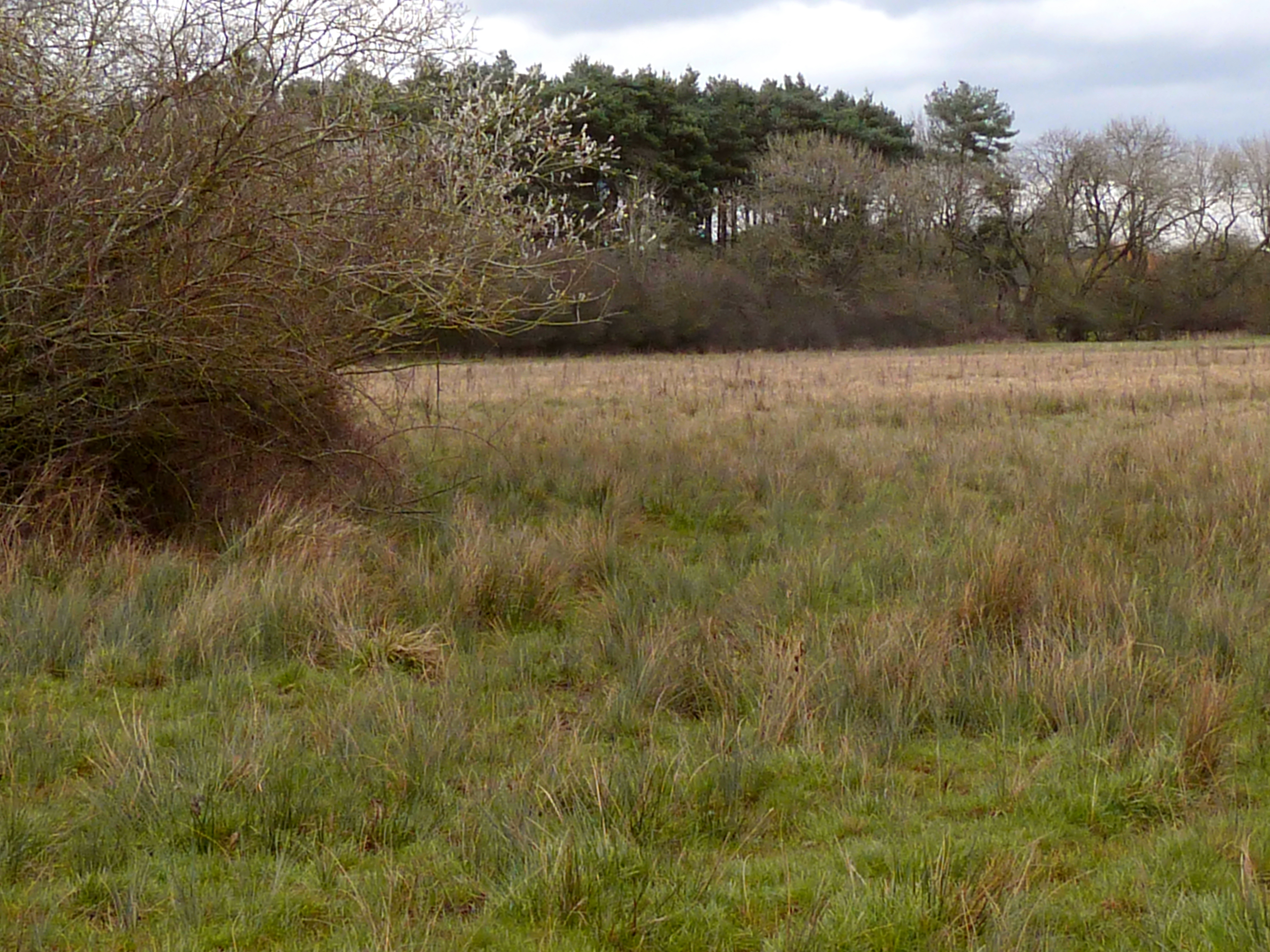 Bishop Monkton Ings, near Bishop Monkton village, North Yorkshire, England. This is a Site of Special Scientific Interest, containing a small area of deciduous woodland carr, most of the site's area being bog and fen. The whole site is waterlogged and there is no public access. It can be seen from a public footpath which remains muddy for most of the year. Showing boggy area of marsh.